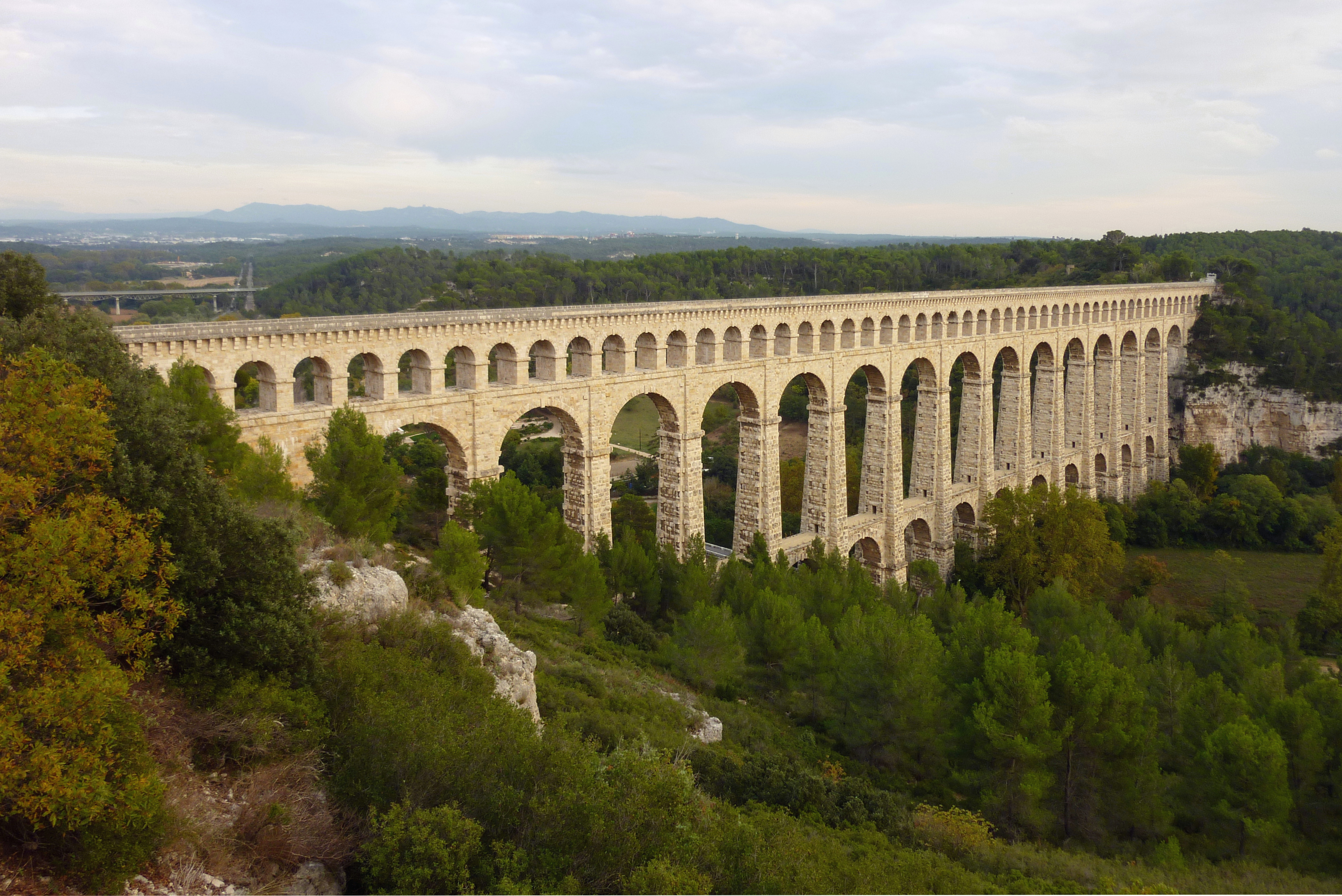 View of the Roquefavour Aqueduct from north-west. In the background, the bridge of the LGV Méditerranée crossing the Arc river.